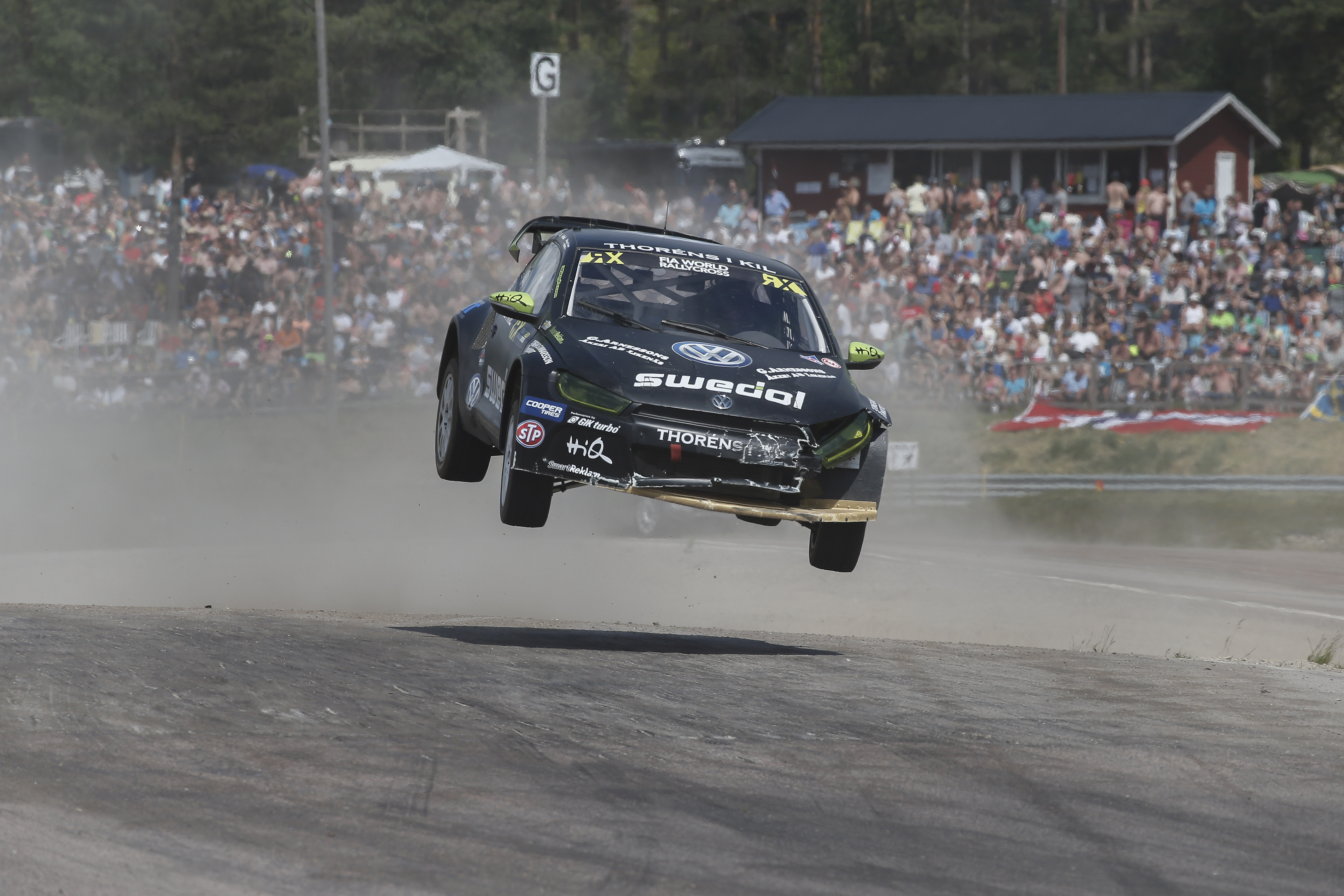 Swedish rallycross driver Ramona Karlsson in her VW Scirocco Supercar at Höljes Motorstadion, Sweden. Round 6 of the 2015 FIA World Rallycross Championship.